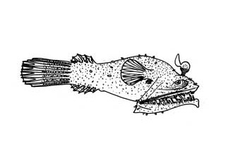 Drawing of the Tyrant dreamer anglerfish, Tyrannophryne pugnax